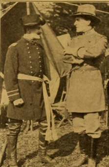 A film still from For Her Sake by the Thanhouser Company. Release on February 14, on Valentine's Day, the film focuses on two love rivals who join different sides in the American Civil War.